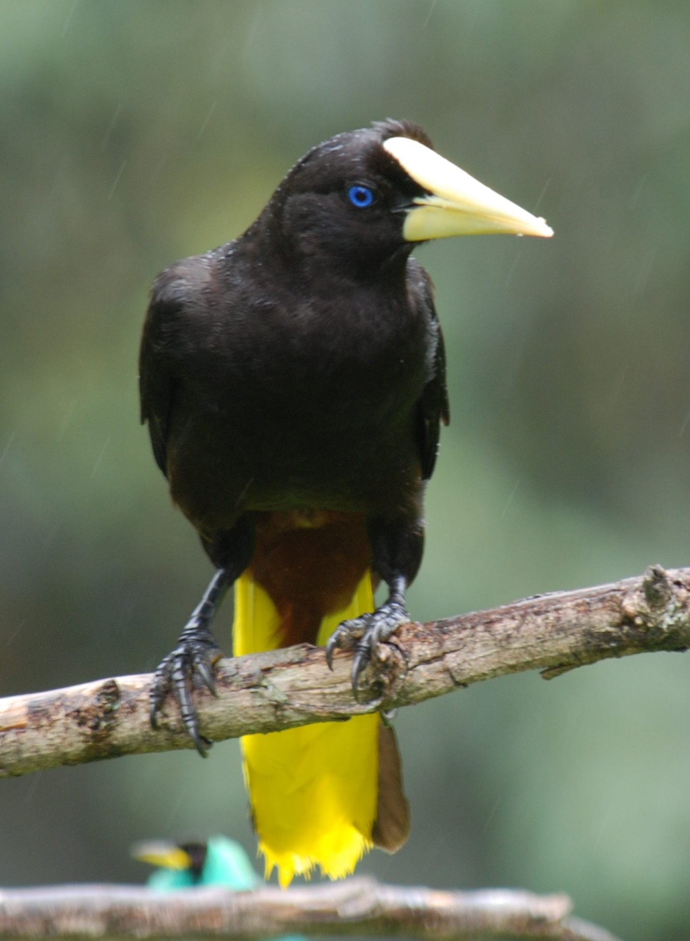 There were lots of Crested Oropendola (Psarocolius decumanus) at the Asa Wright Nature Center in Trinidad.